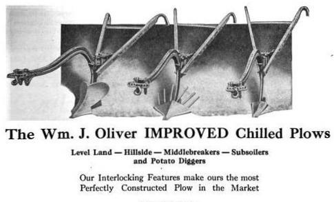 Advertisement for the Knoxville, Tennessee-based William J. Oliver Plow Company, which operated in the city during the early 1900s.